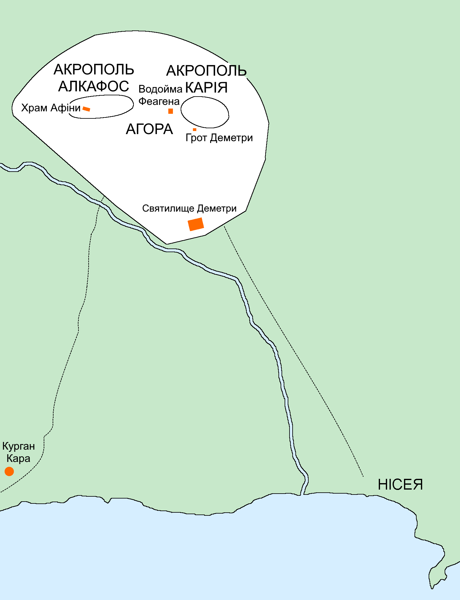 Map of Megara in the Archaic Time